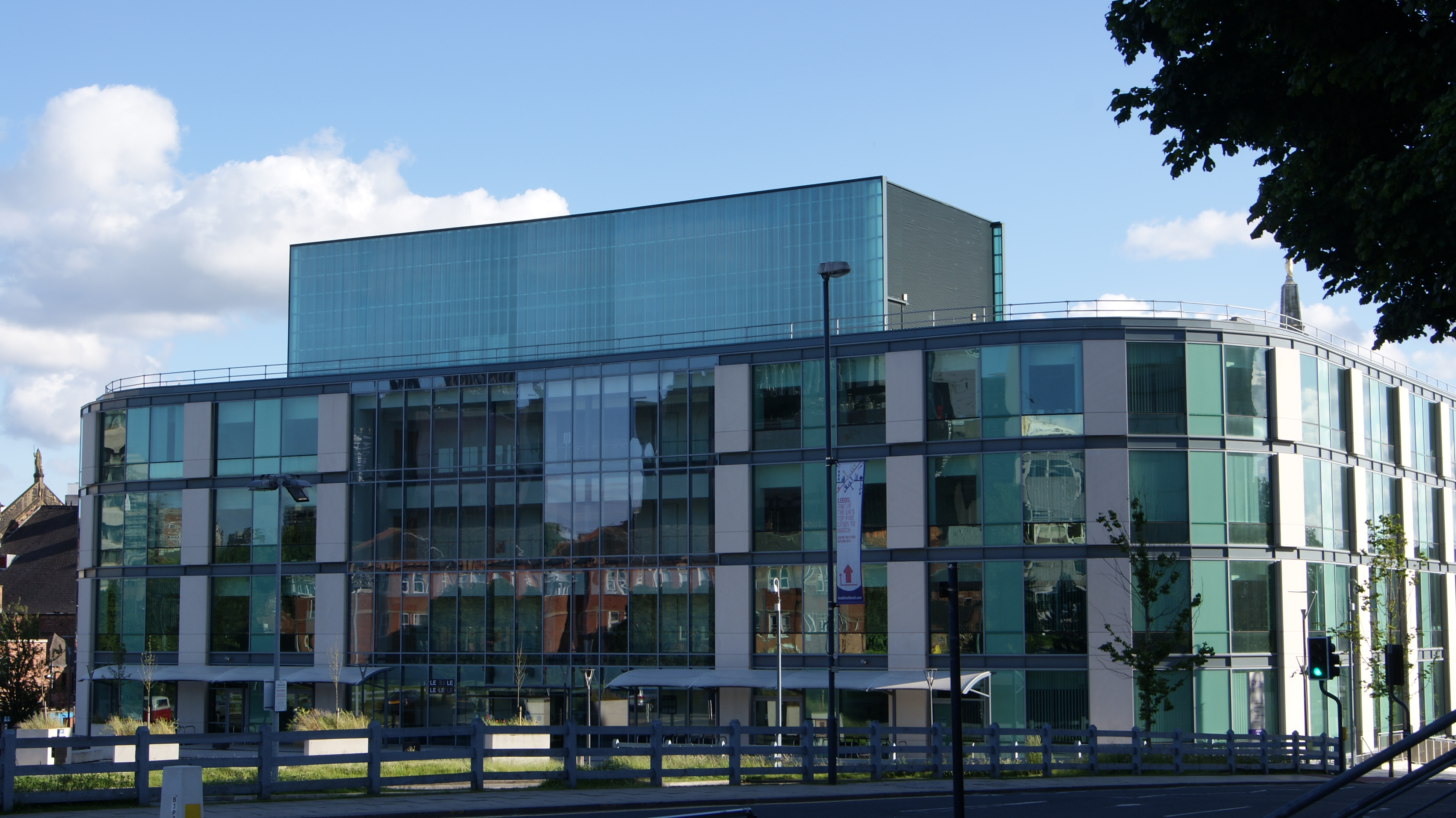 The Rose Bowl at Leeds Metropolitan University in Leeds, West Yorkshire. Taken on the evening of Wednesday the 11th of July 2012.